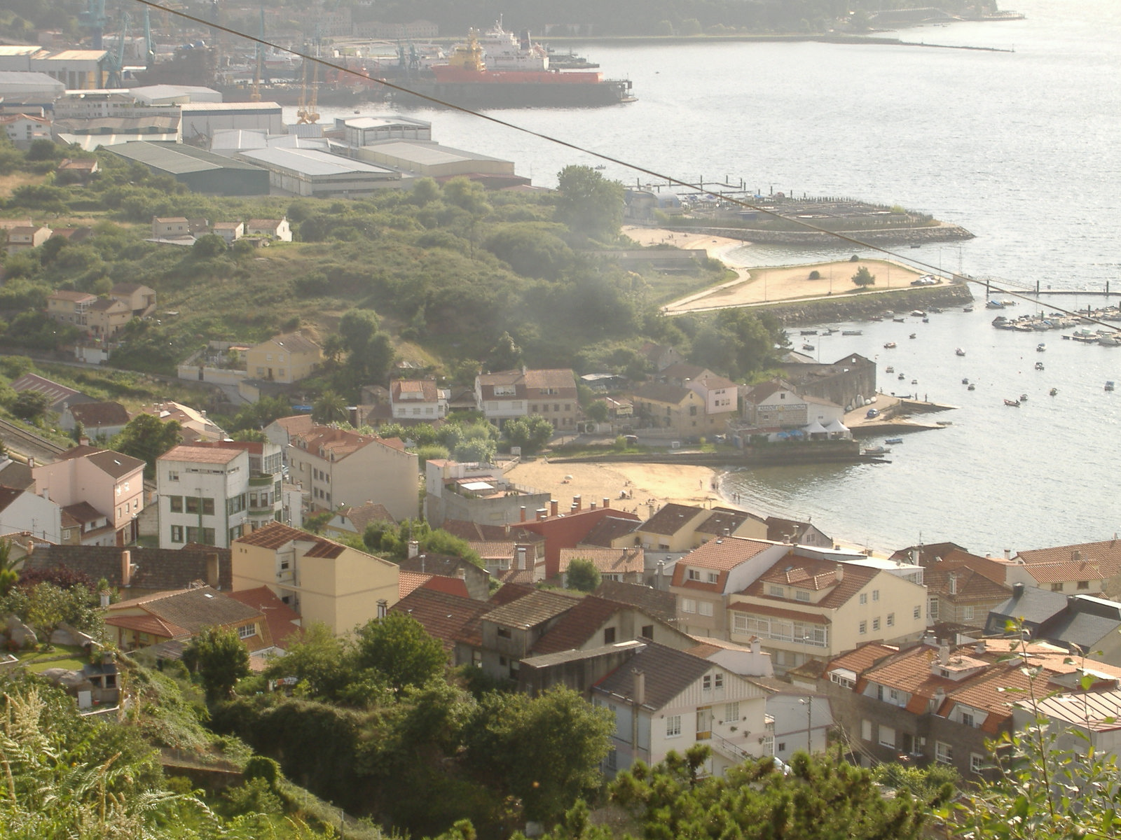 View of Arealonga Beach, in Chapela, as seen from the Pinar do Crego.